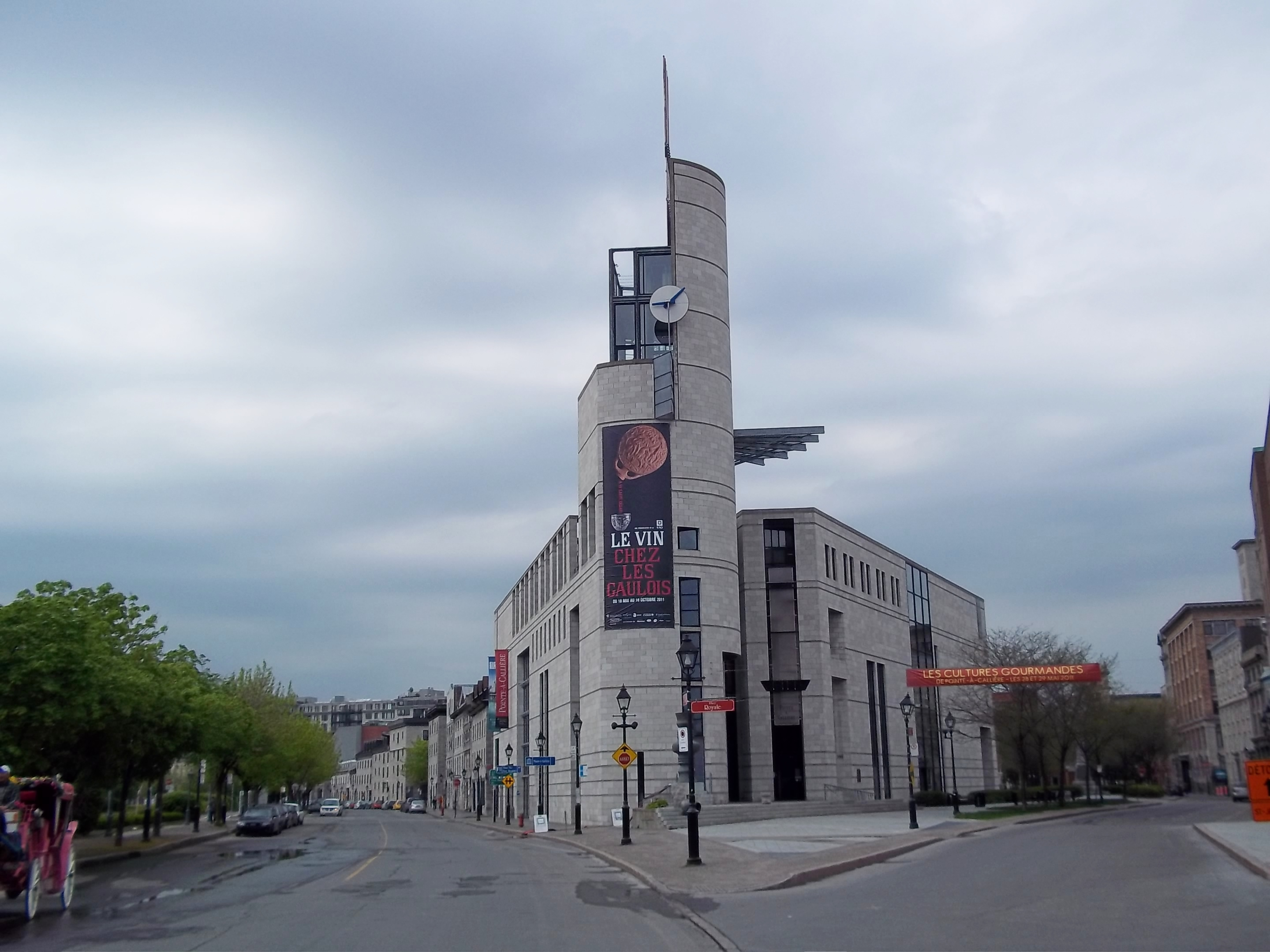 Pointe-à-Callière Museum, Éperon Building, Montreal